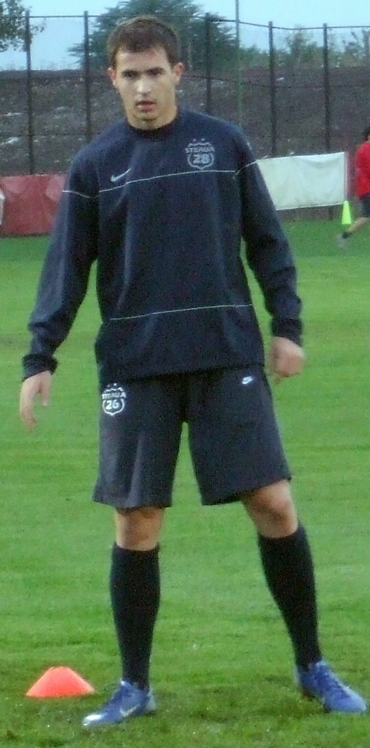 Bogdan Stancu